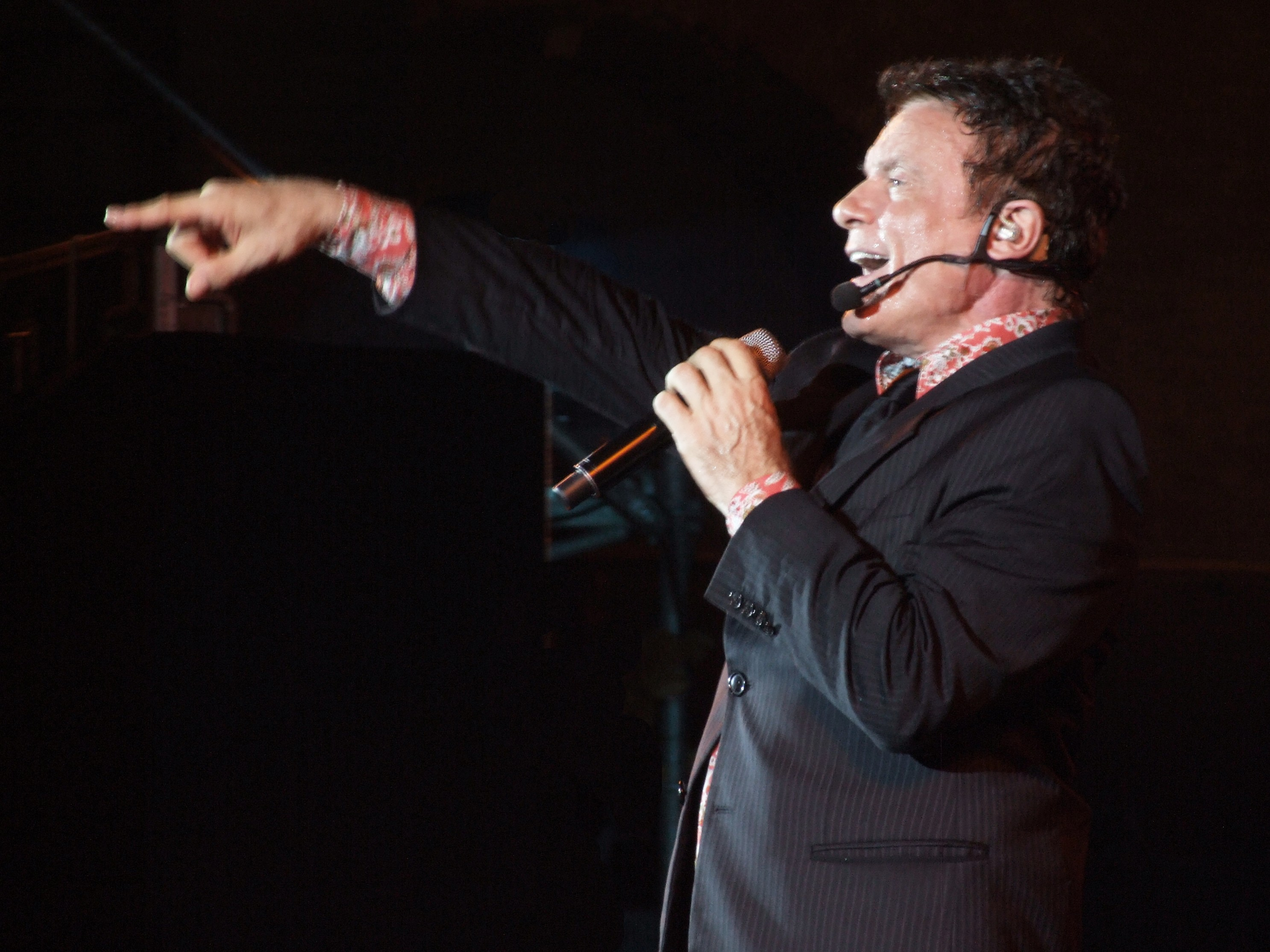 Massimo Ranieri in concert in Taormina, Sicily